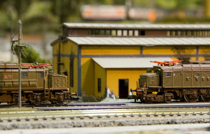 View of Mario Malinverno's layout in N Scale called "Pinerate". The locomotives are self-created models of a FS E626 and a FS E428. More pictures of the same layout are visible on [1]